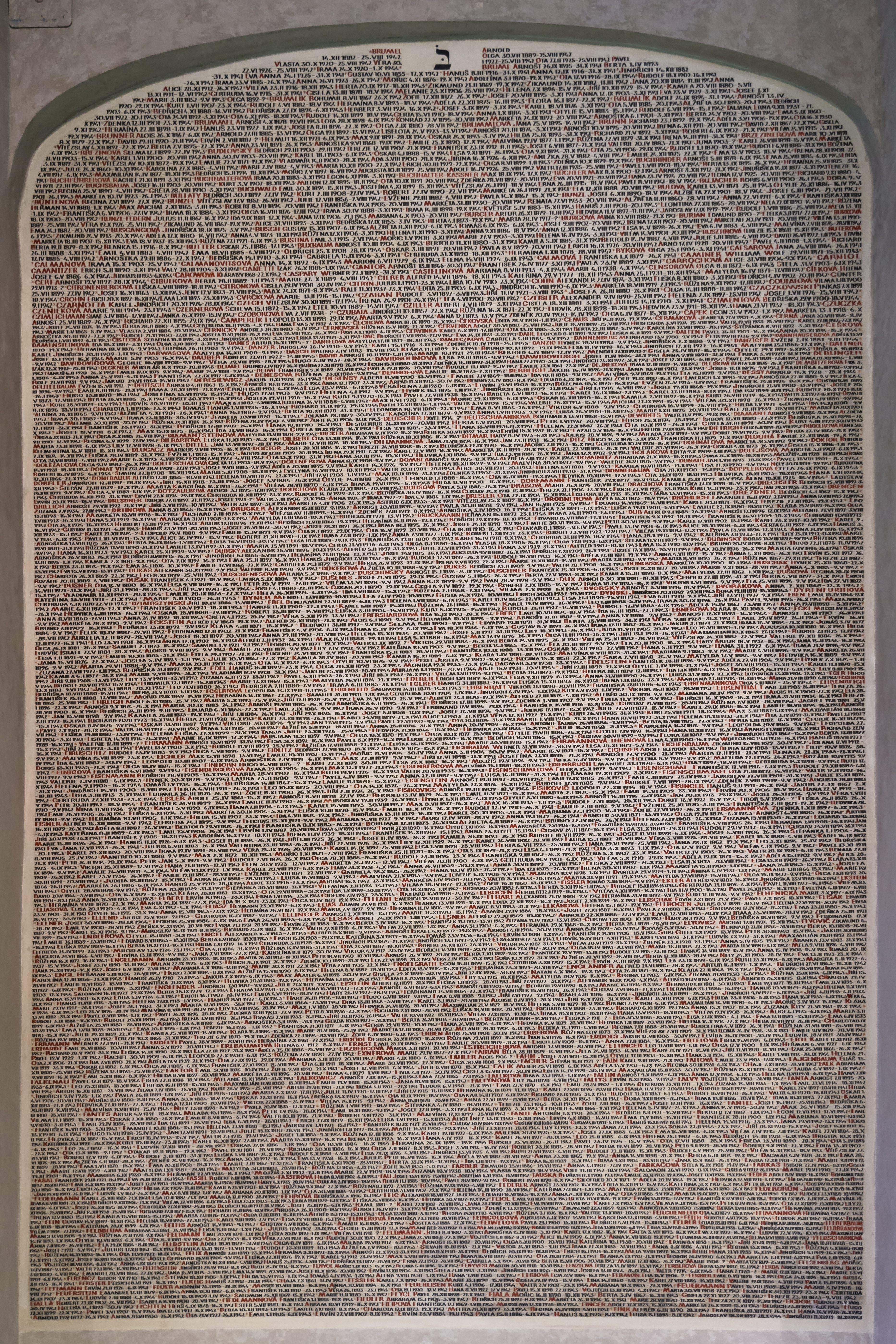 Shoah Memorial at the Pinkas Synagogue (in Czech Pinkasova synagoga) in Josefov, Prague, Czech Republic. About 80.000 victims of the Shoah are inscribed on many of such walls.